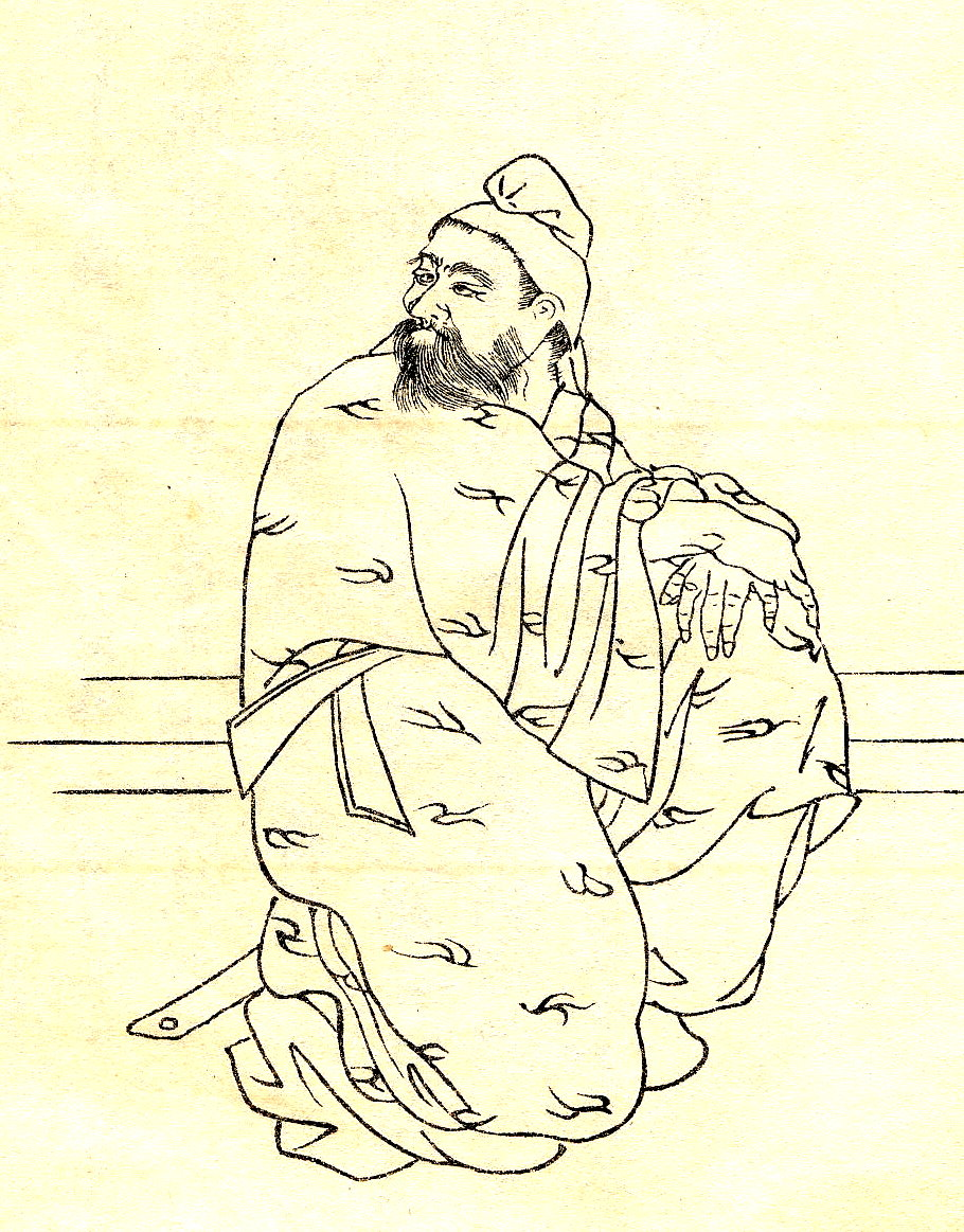 Miwa no Sakau(三輪逆) was a japanese court noble in Asuka period.